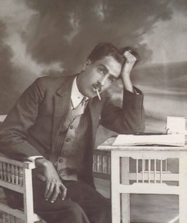 The poet Mustafa Wahbi Al-Tal in the first half of the 20th century